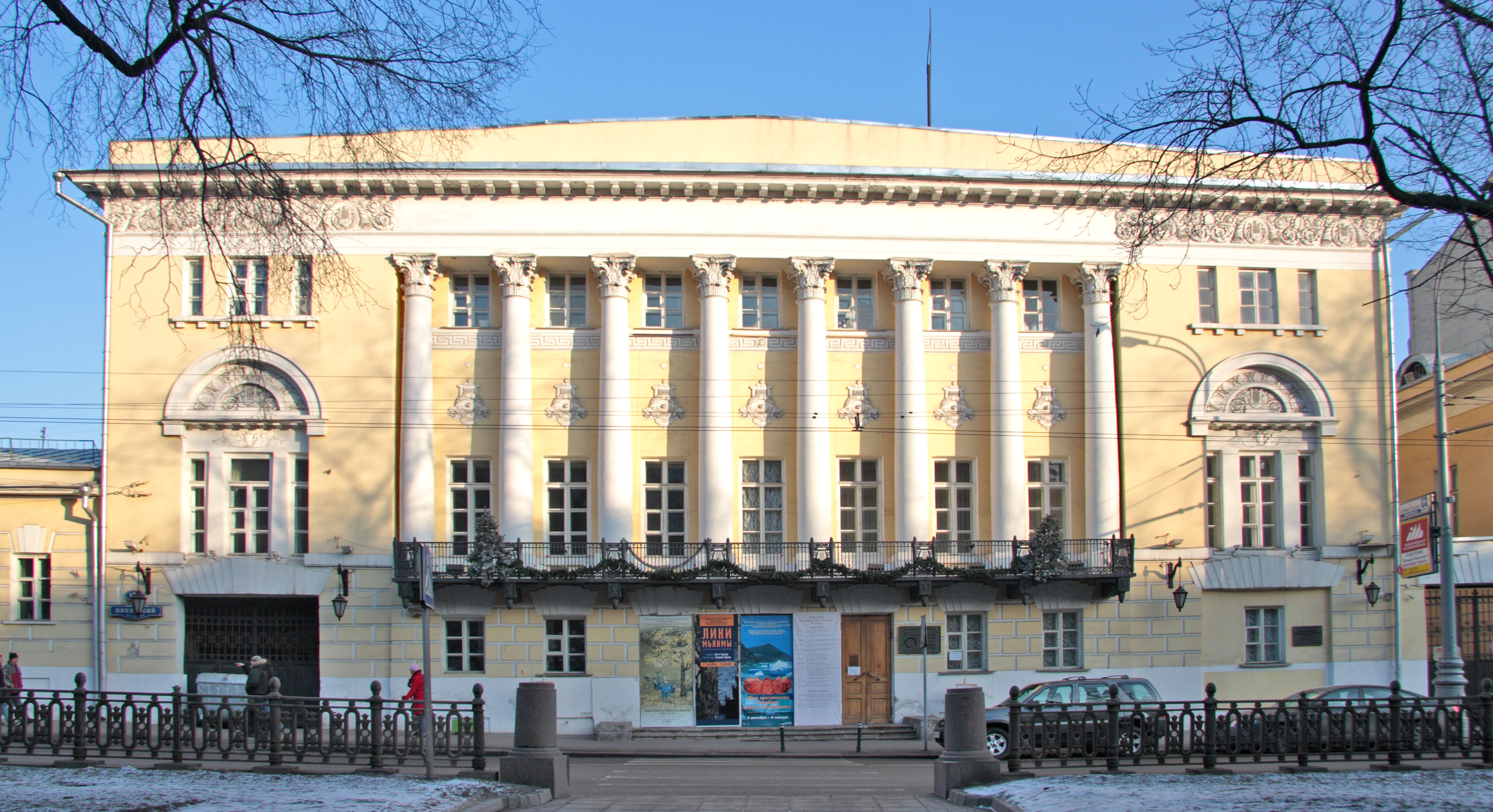 East nations art museum in Moscow, Russia